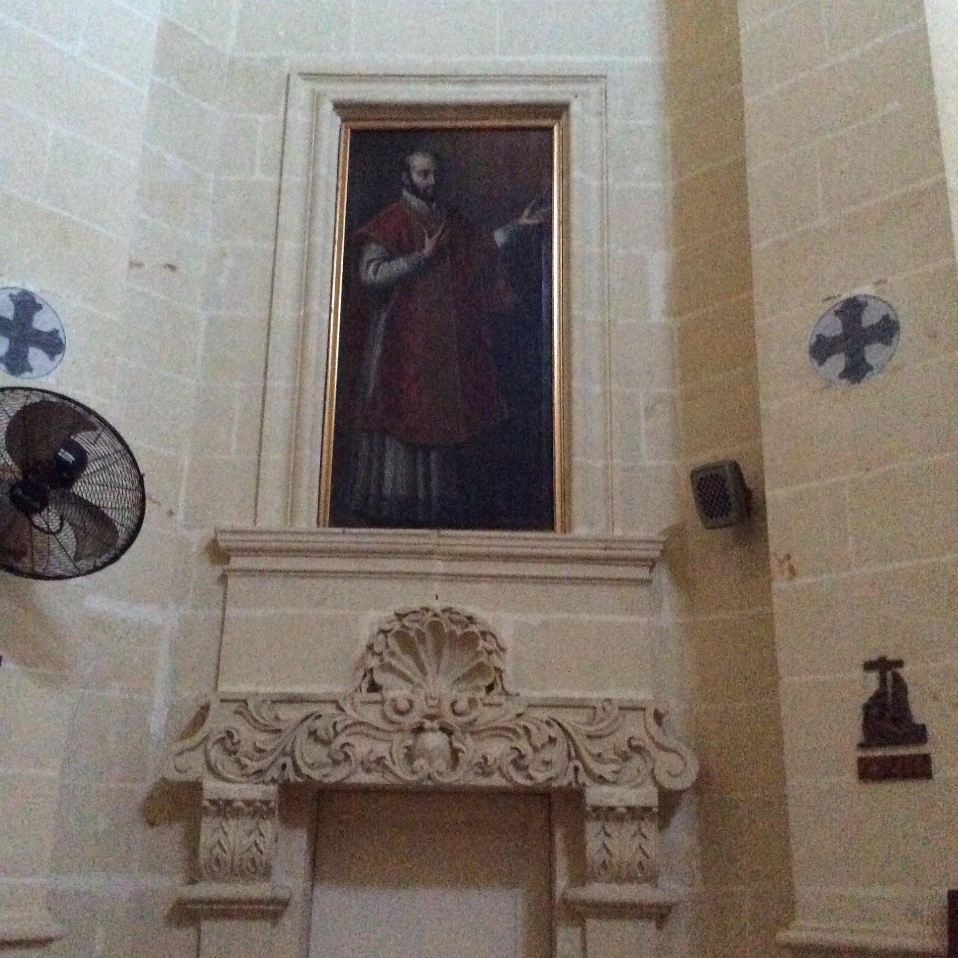 Manresa Retreat House and Church of Our Lady of Manresa This media is about Maltese cultural property with inventory number 00928.